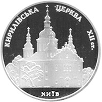 Coin of Ukraine